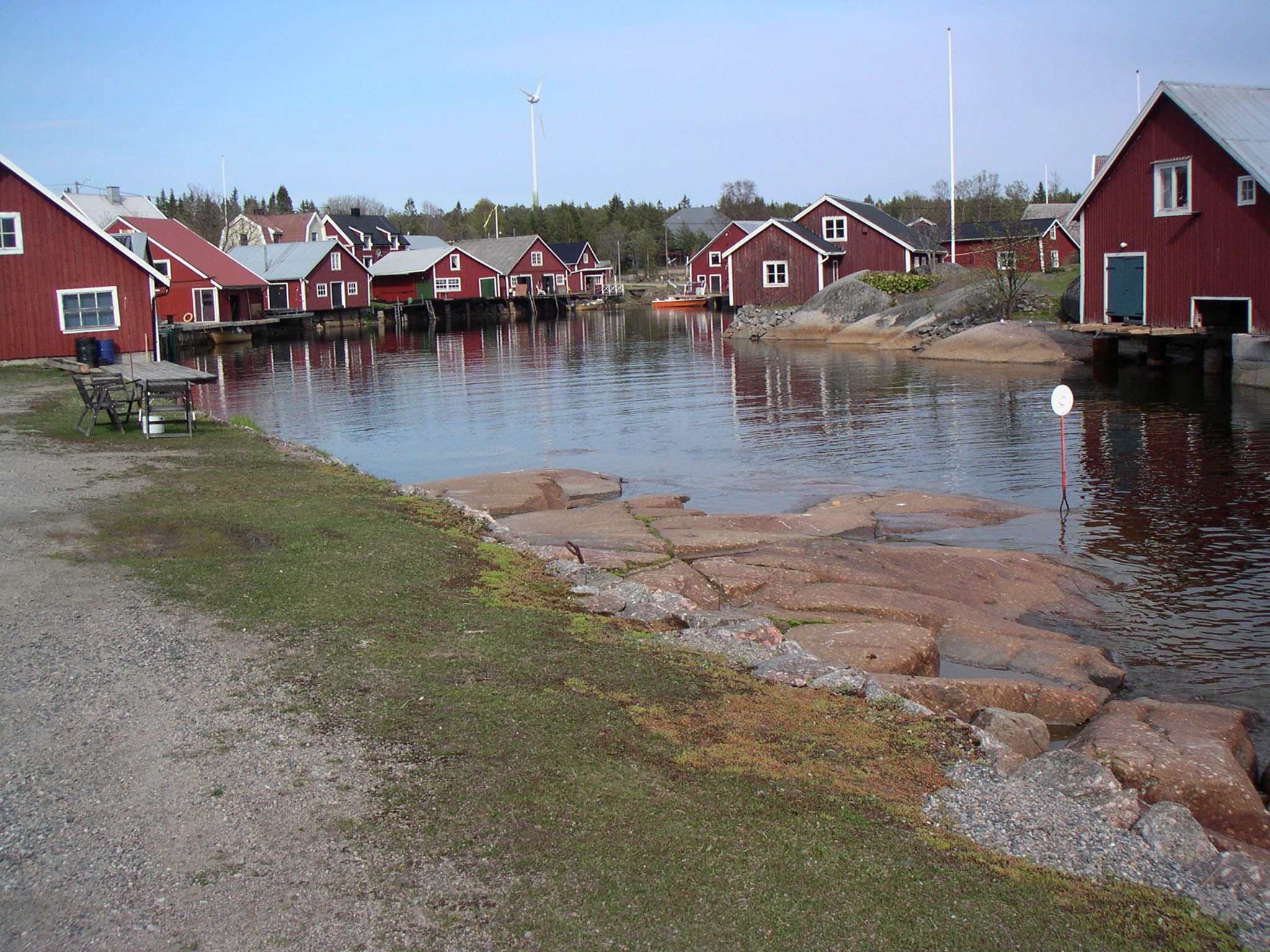 Skeppsmalen